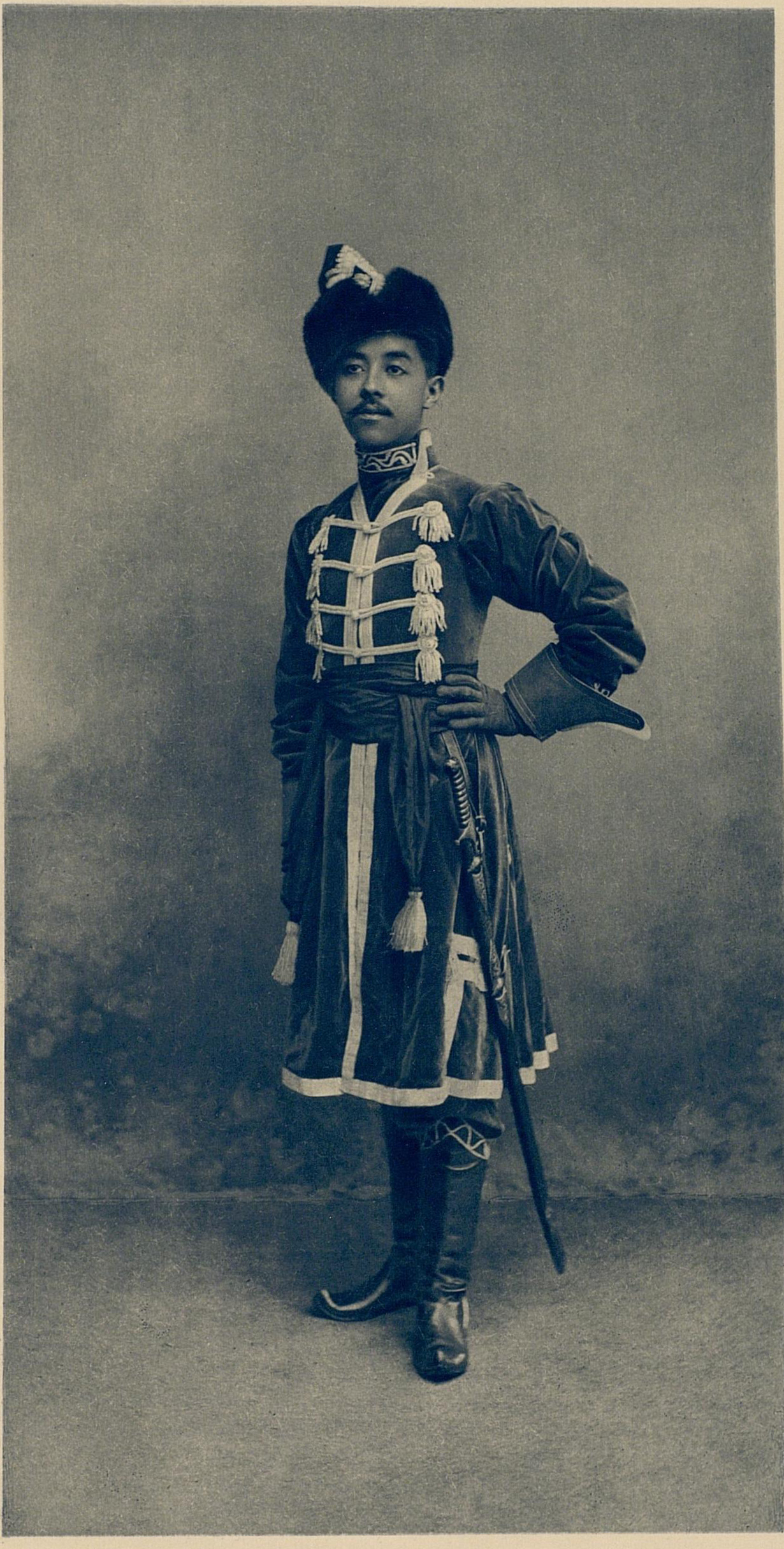 HRH Field Marshal Chakrabongse Bhuvanadh, Prince of Phitsanulok, Siam